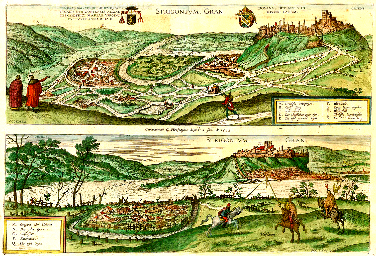 Antique map of (Hungary) Esztergom by Braun & Hogenberg 1595